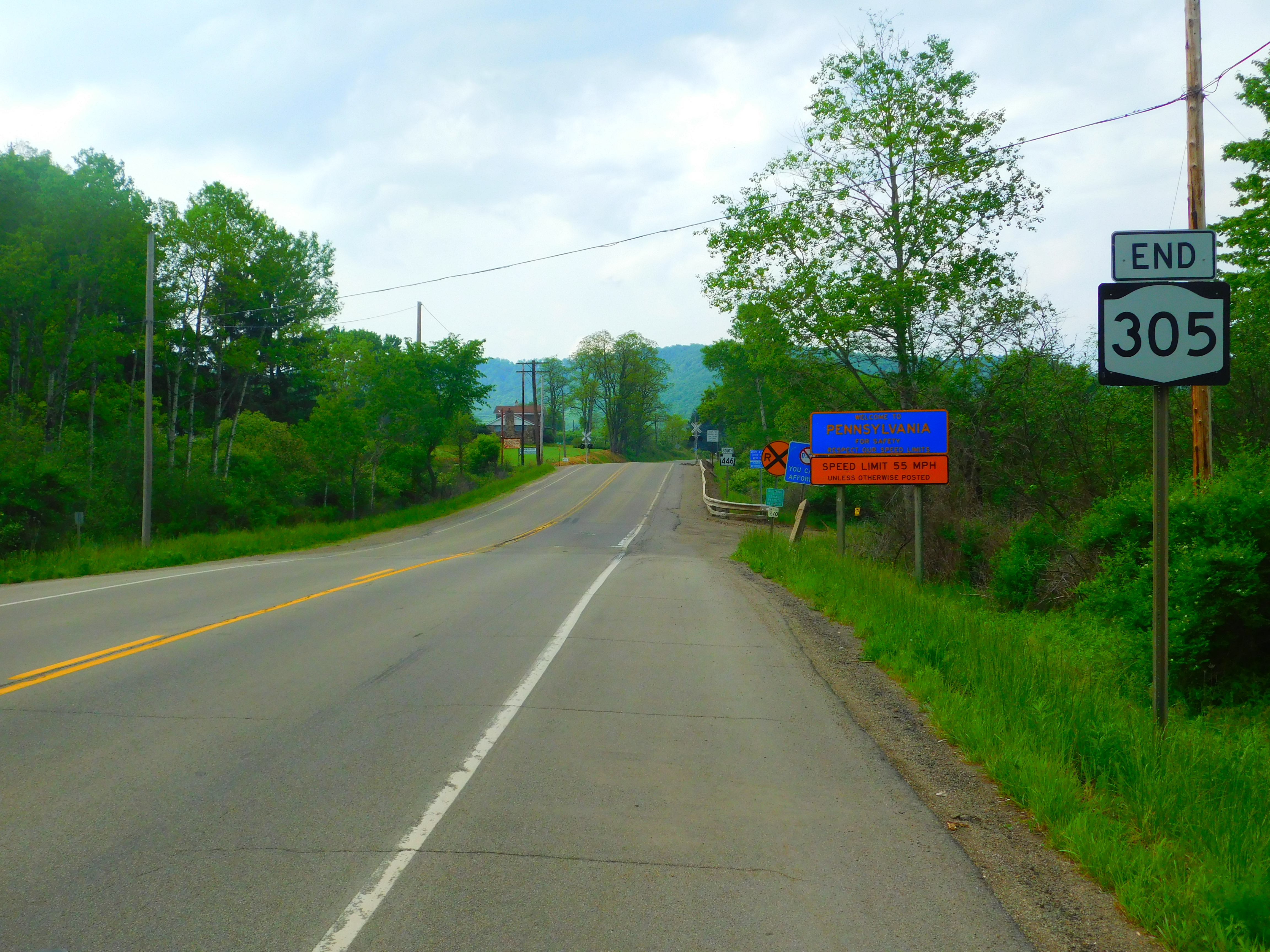 NY 305 southbound approaching the Pennsylvania state line.